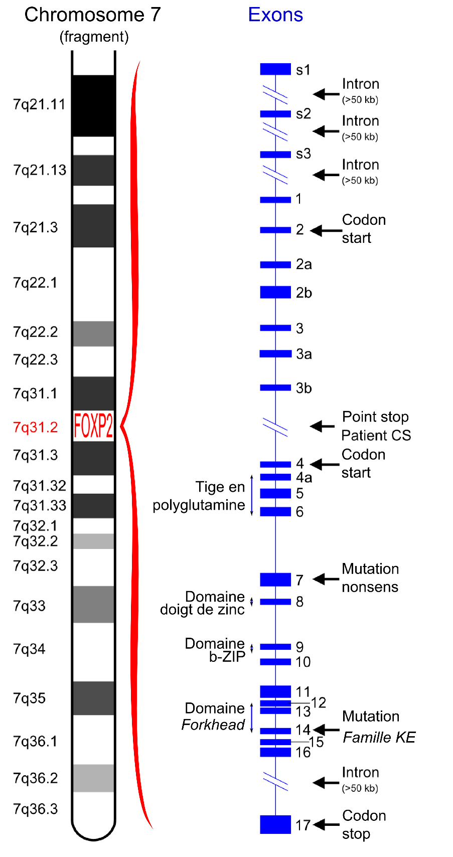 The position of the FOXP2-Gene at chromosome 7 and its 17 exons.